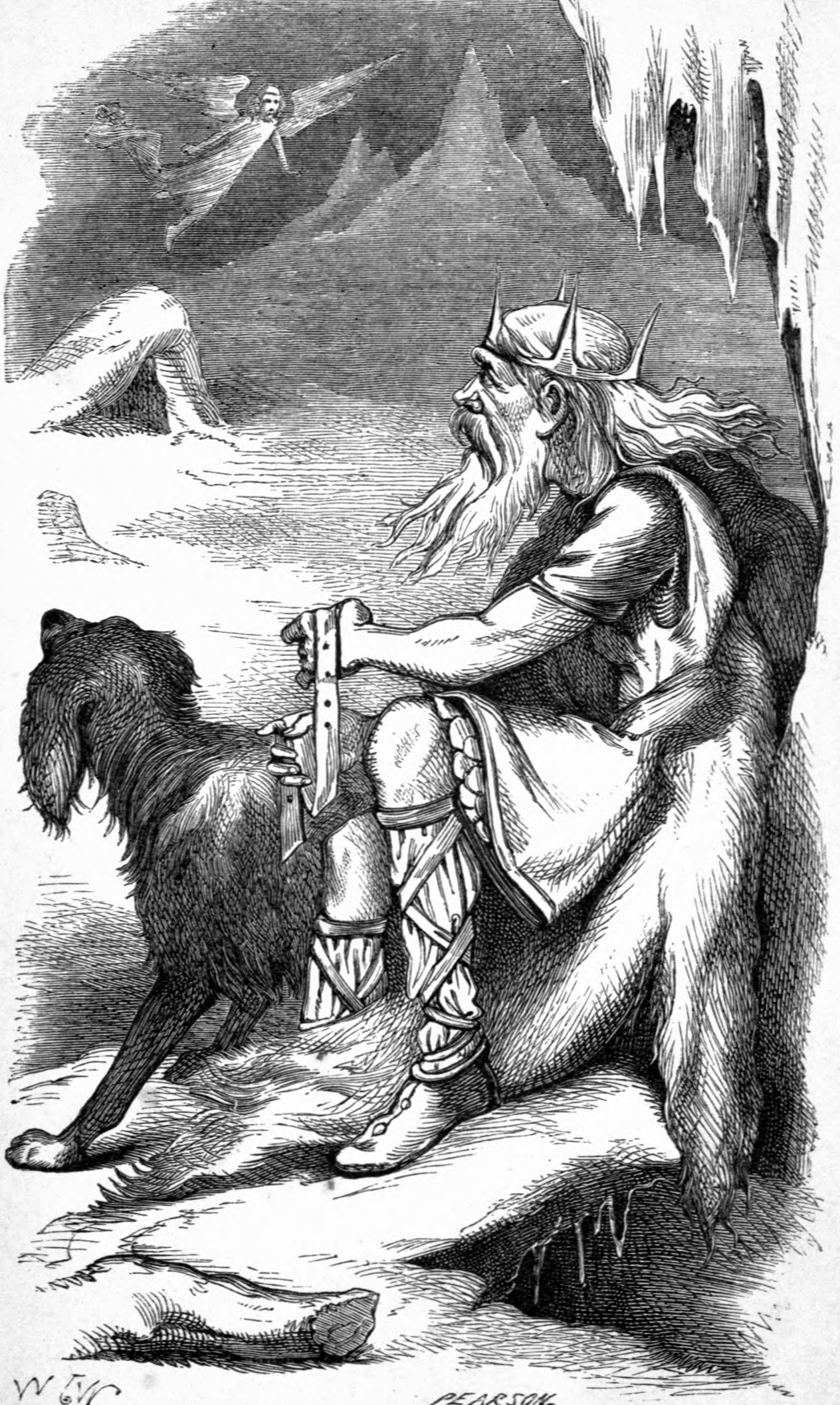 The King of the Frost-Giants (the title in the list of illustrations). Loki comes flying to Jötunheimr where King Þrymr sits and tends to his dogs.